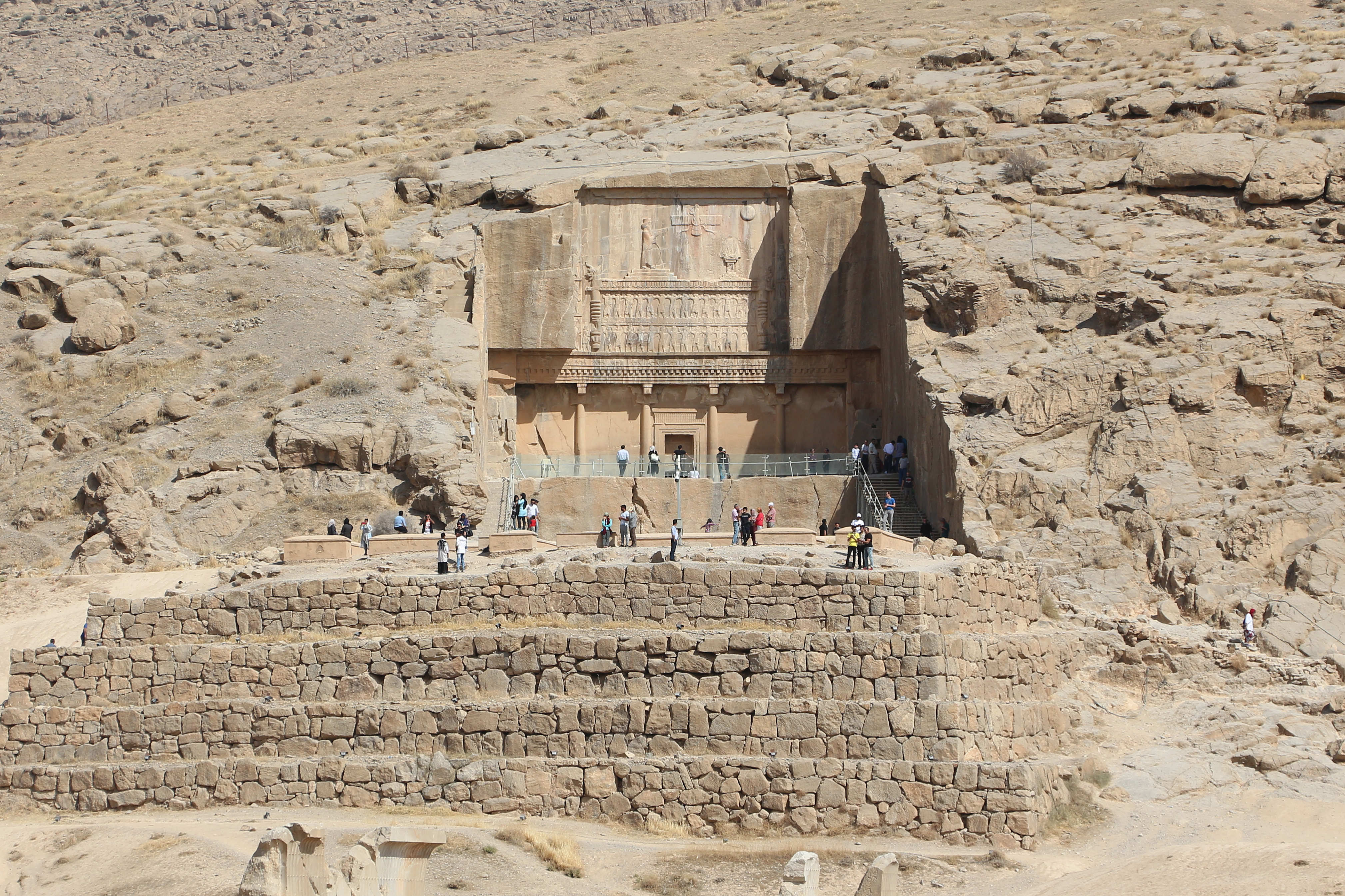 Tomb of Artaxerxes III, Persepolis, Iran